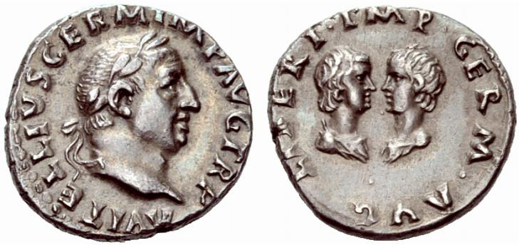 VITELLIUS. 69 AD. AR Denarius (3.44 gm). [A VIT]ELLIVS GERMAN IMP TR P, laureate head right / LIBERI IMP GERMAN, confronted busts of Vitellius’ son and daughter, both draped. RIC I 79